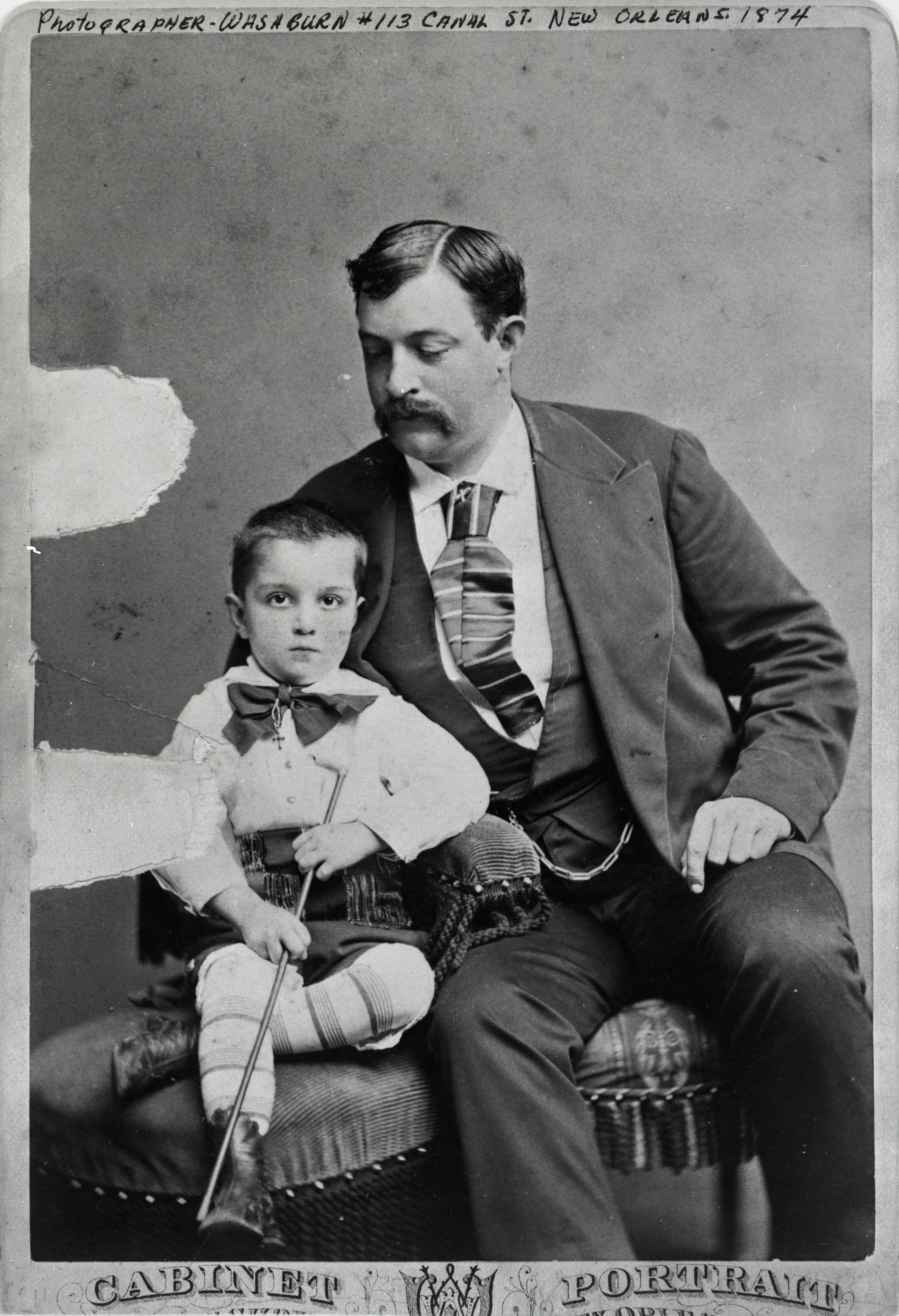 Title: Carte de visite of Oscar Chopin [husband of Kate Chopin] and son Jean in New Orleans [from black and white negative], 1874